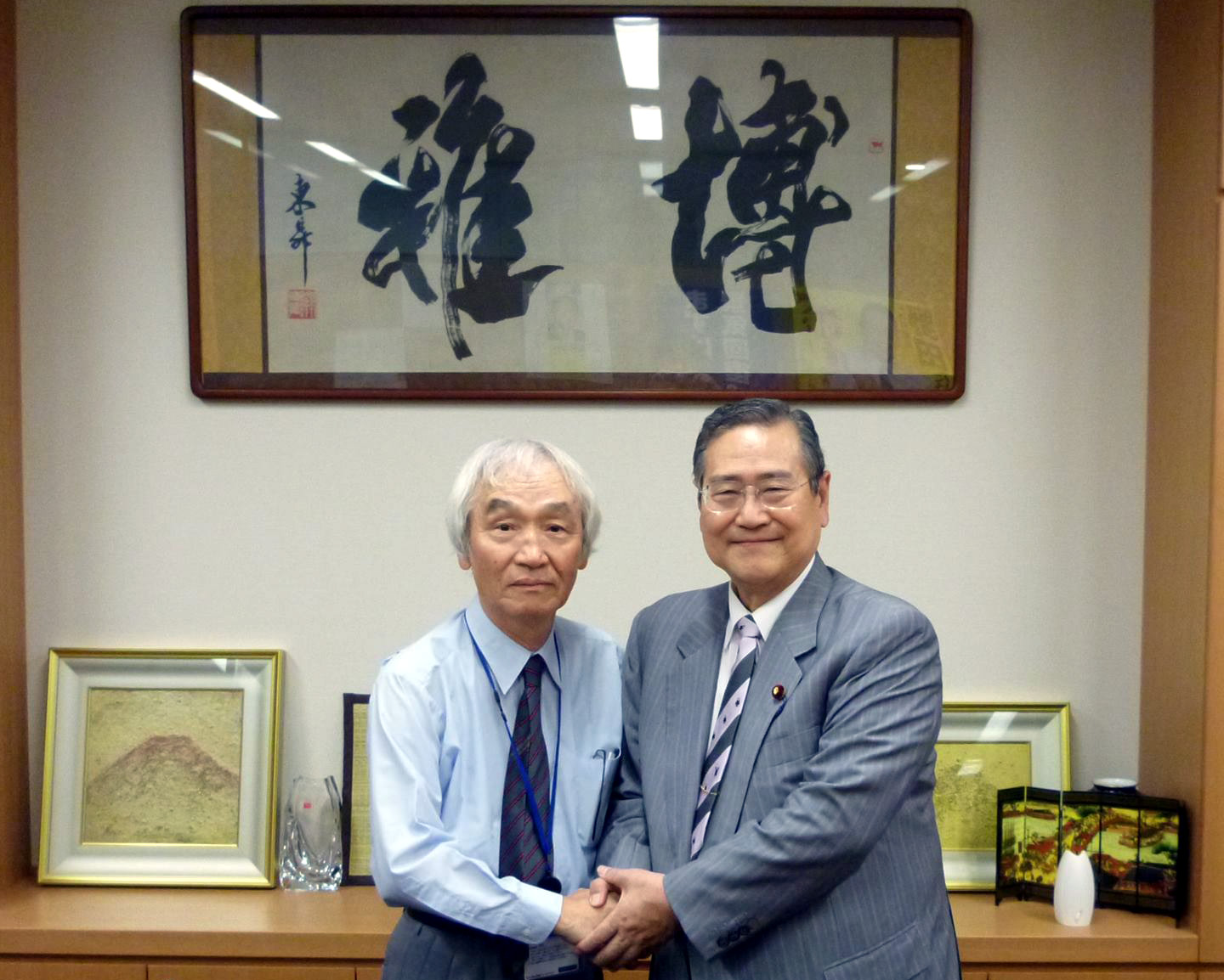 Mr Baba and Mr Noda